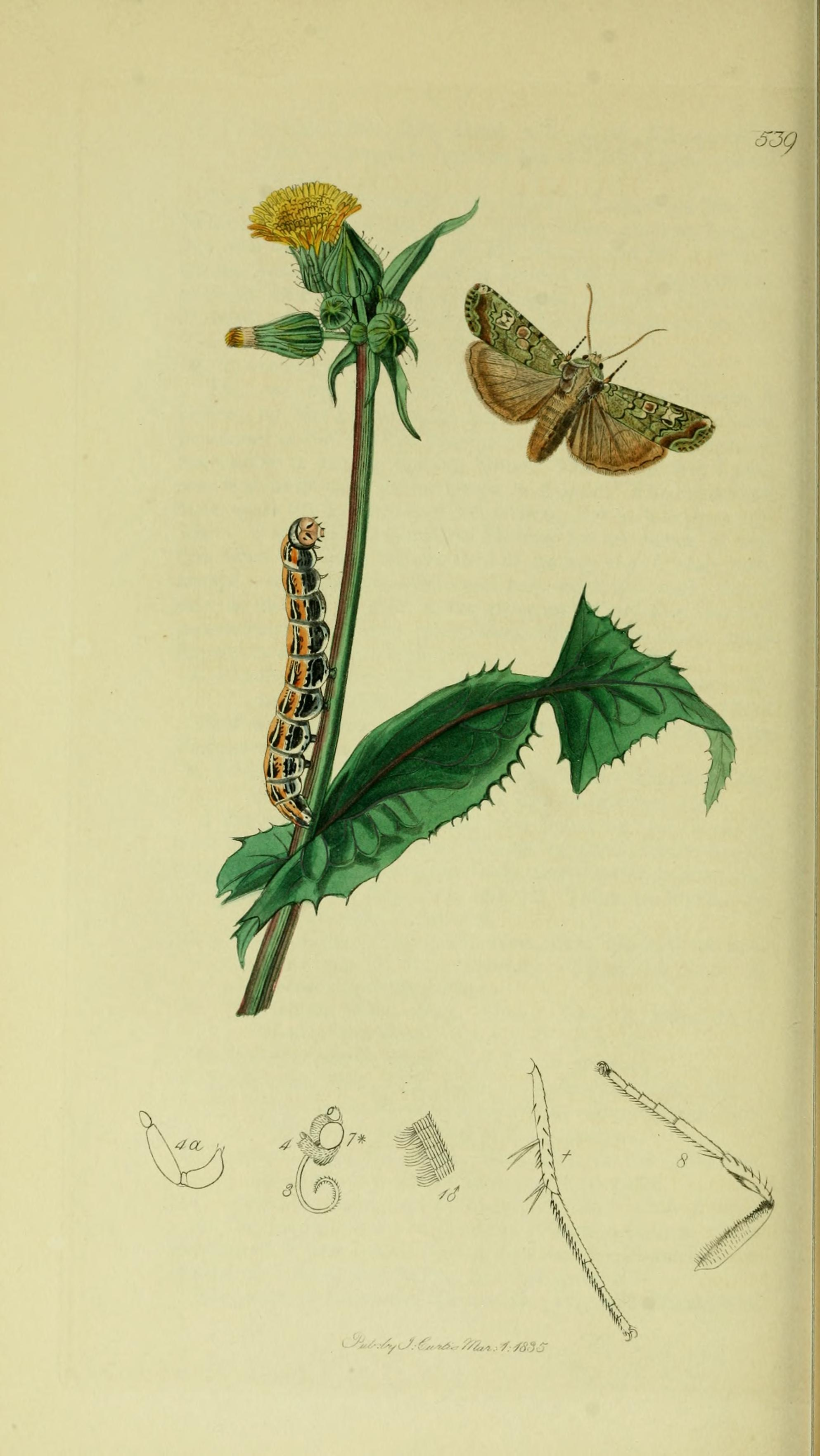 An illustration from British Entomology by John Curtis. Hapalia praecox or Ochropleura praecox or Actebia praecox (Portland Moth, Portland Dart).